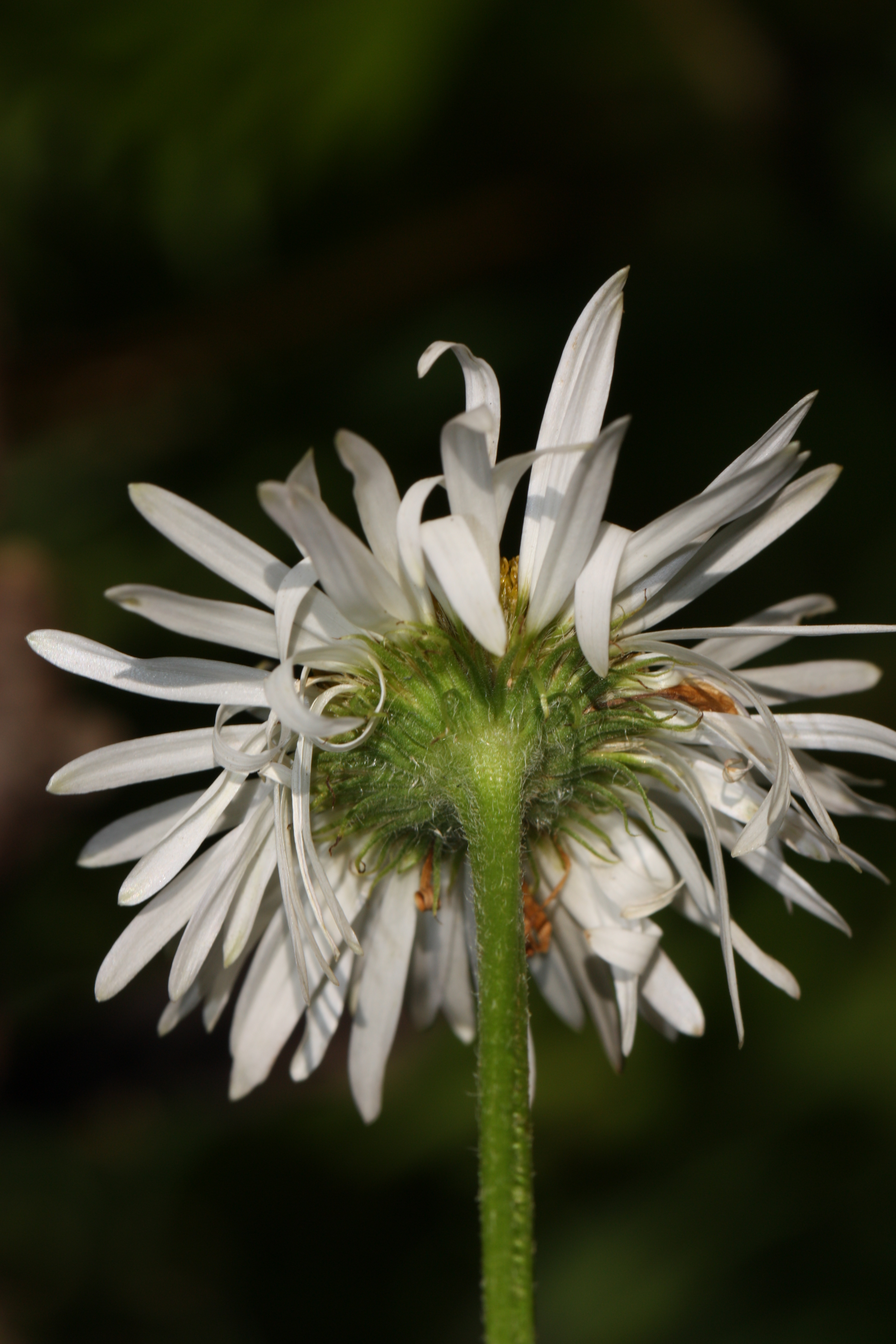 Subalpine Fleabane, Peregrine Fleabane